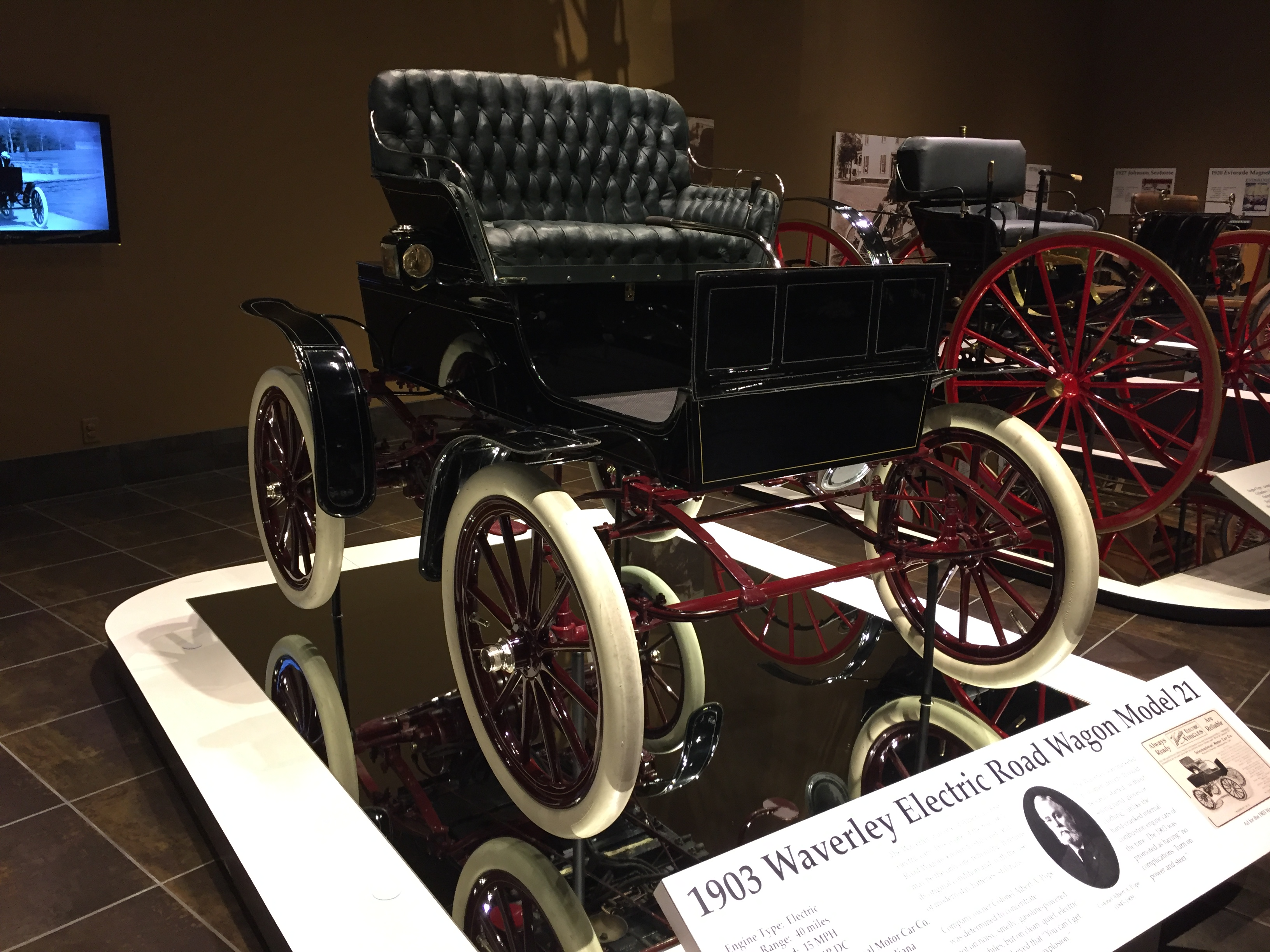 A 1903 Waverley Electric Road Wagon at the Tellus Science Museum